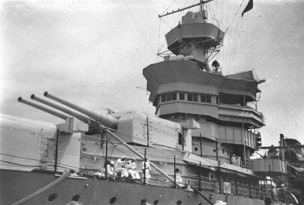 Gun turret and bridge of an the U.S. Navy heavy cruiser USS Portland (CA-33) docked in Brisbane, Australia, 25 March 1941. Portland visited Brisbane with the USS Chicago (CA-29), flying the flag of Rear Admiral John H. Newton. The cruisers were accompanied by the destroyers from Destroyer Squadron 3, USS Clark (DD-361, flagship), USS Cassin (DD-372), USS Conyngham (DD-371), USS Downes (DD-375), and USS Reid (DD-369). The ships had arrived from Sydney, after having visited New Zealand. [1] Note that the cruiser is not yet camouflaged.